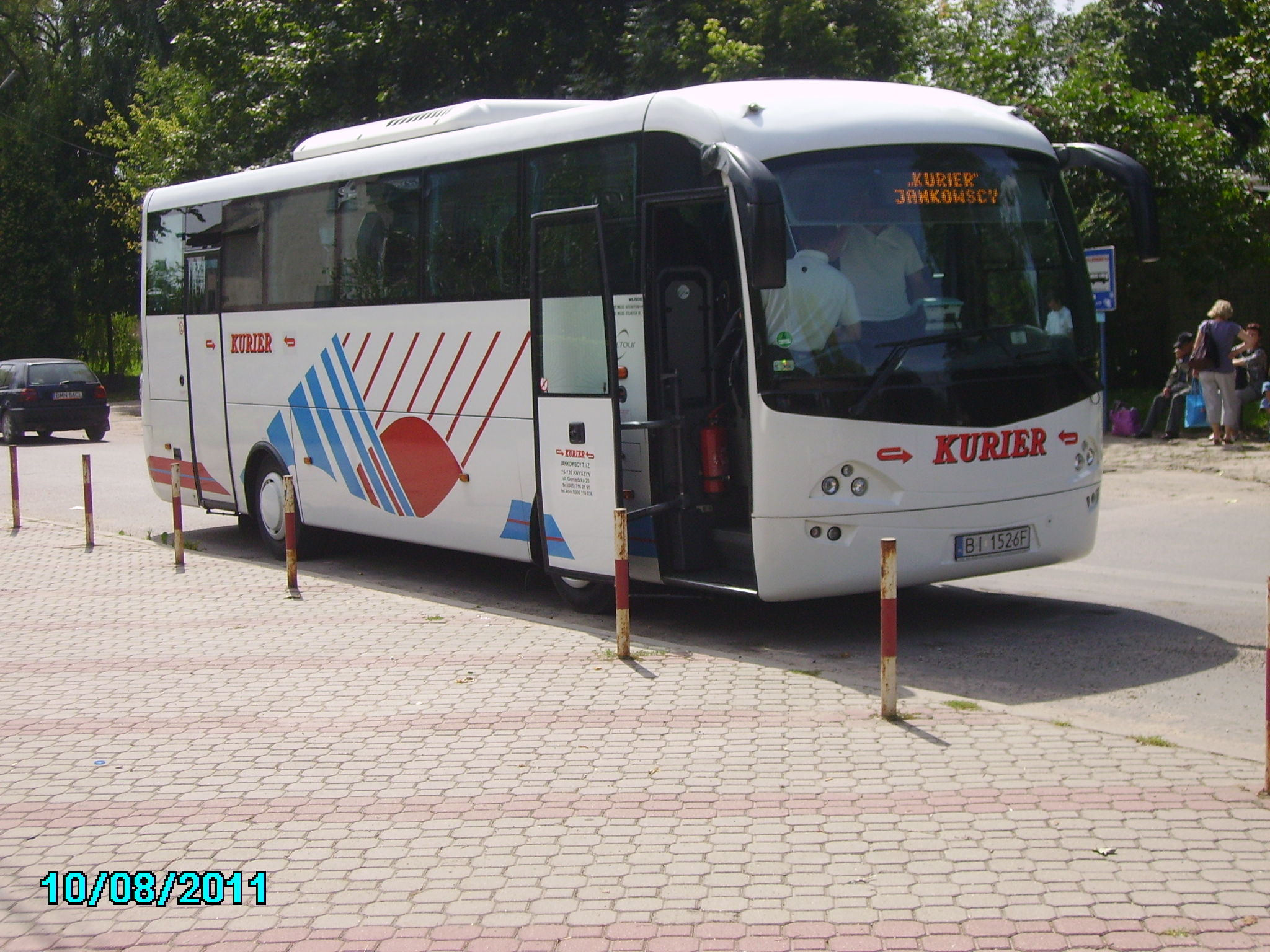 Solbus Soltour ST10/I intercity bus (reg. BI 1526F) in Mońki, Podlaskie Voivodeship, Poland. Built 2009, Biuro Turystyczne Kurier s.c. from Mońki operator.